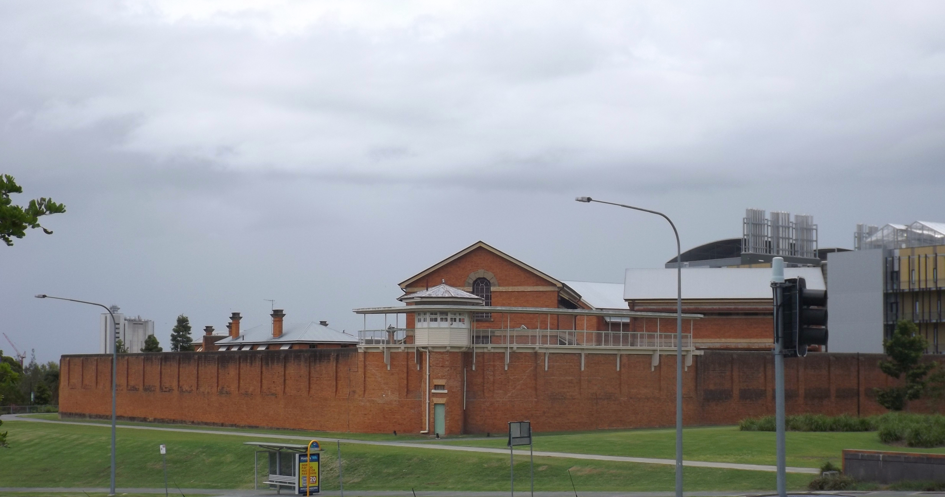 Photo of Boggo Road Goal structure as seen from Gair Park in Dutton Park, Brisbane, Queensland, Australia.